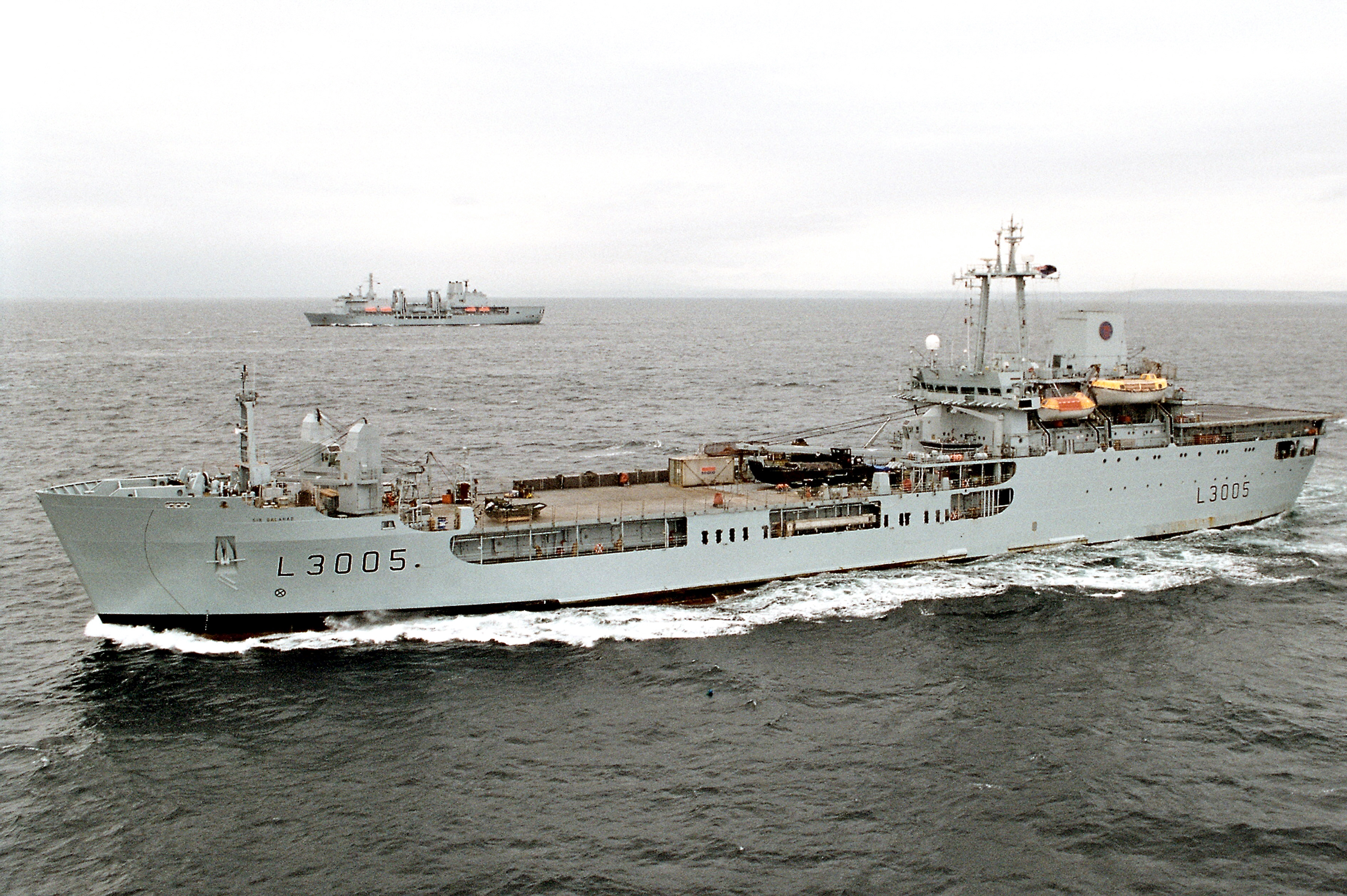 Arabian Gulf (Mar. 26, 2003) -- The Royal Fleet Auxiliary, Landing Ship Logistic RFA Sir Galahad (L 3005) underway in the Arabian Gulf. Sir Galahad, with a capability of carrying approximately 400 troops, with a beaching capacity of 3,440 tons, is expected to be the first ship to deliver coalition humanitarian supplies in support of Operation Iraqi Freedom. It is currently loaded with 232,300 Kg. of supplies for the people of Iraq. Operation Iraqi Freedom is the multi-national coalition effort to liberate the Iraqi people, eliminate Iraq’s weapons of mass destruction, and end the regime of Saddam Hussein. Royal Navy photo by POA (Photo) Dave Coombs. (RELEASED)